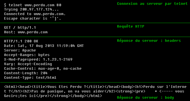 HTTP request and reply by telnet, to get the homepage.